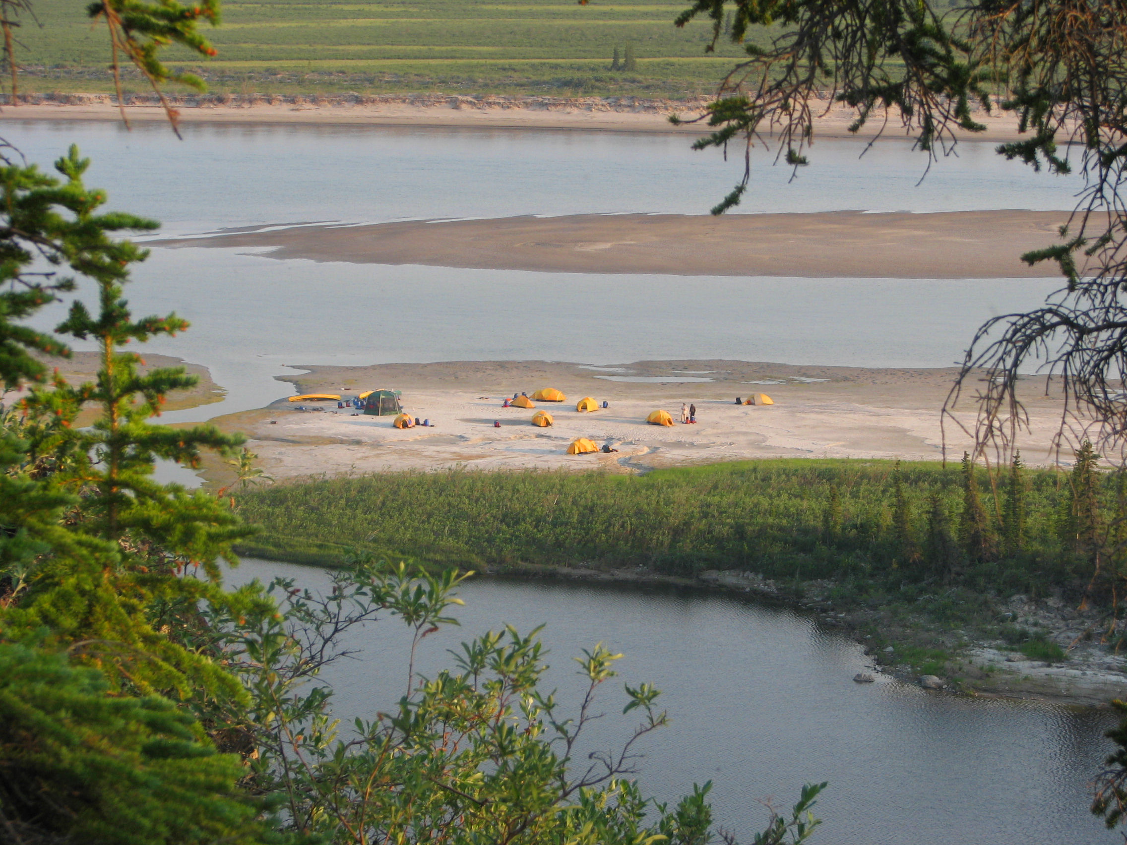 Canoeist campsite along Coppermine River, Nunavut, Canada